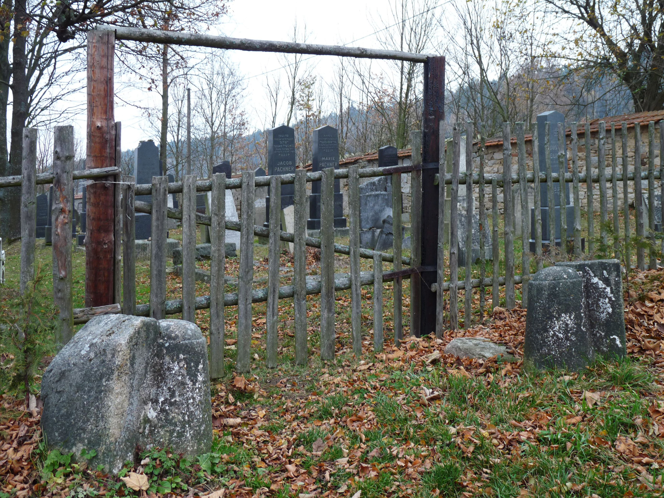 Jewish cemetery by the town of Nová Bystřice, Jindřichův Hradec District, South Bohemian Region, Czech Republic.